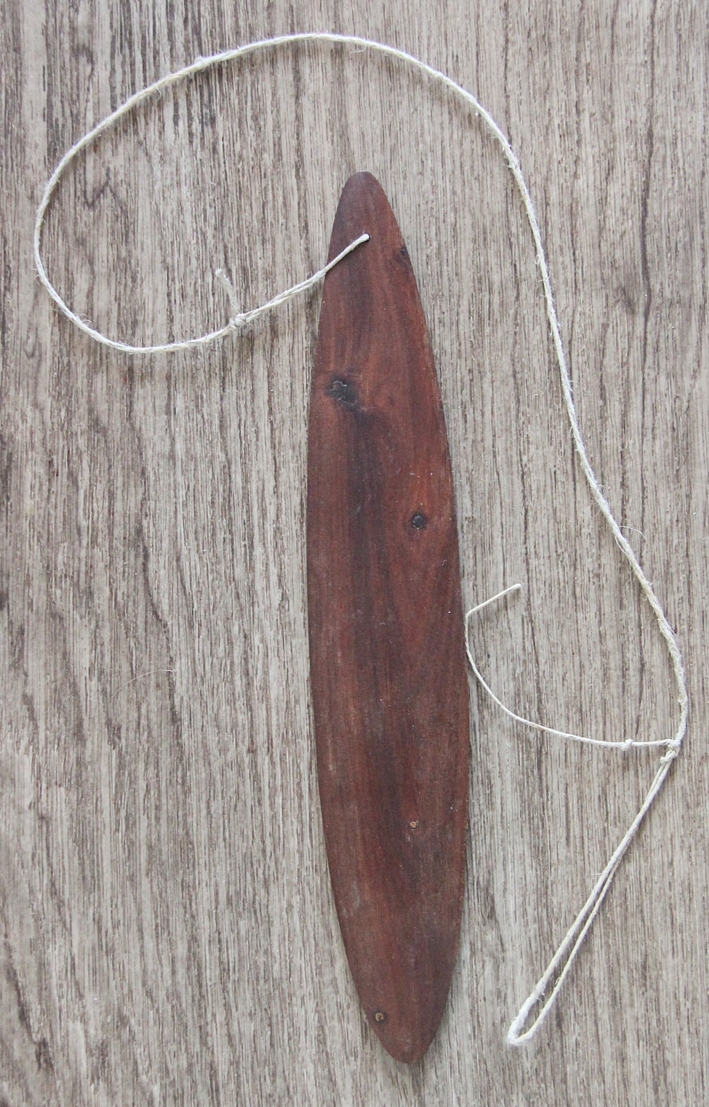 Rombus bullroarer from Australia